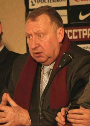 Russian football coach Vladimir Grigoryevich Fedotov (1943—2009)